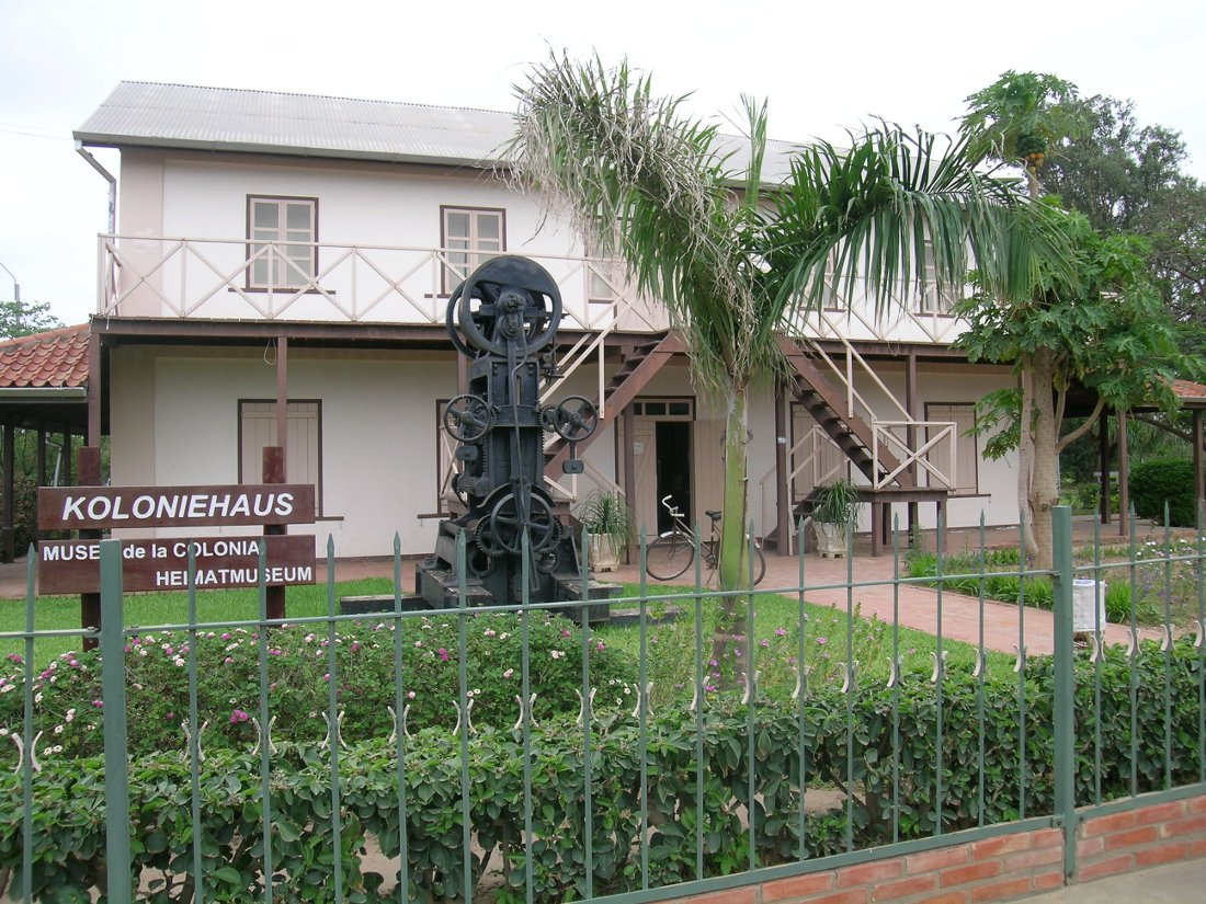 Museum Jakob Unger